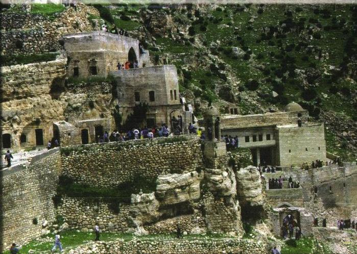 Monastery of Rabban Hurmizd in Alqosh, Iraq